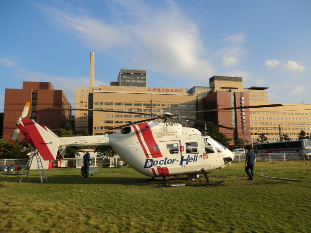 Japanese ambulance helicopter of Kawasaki Medical School